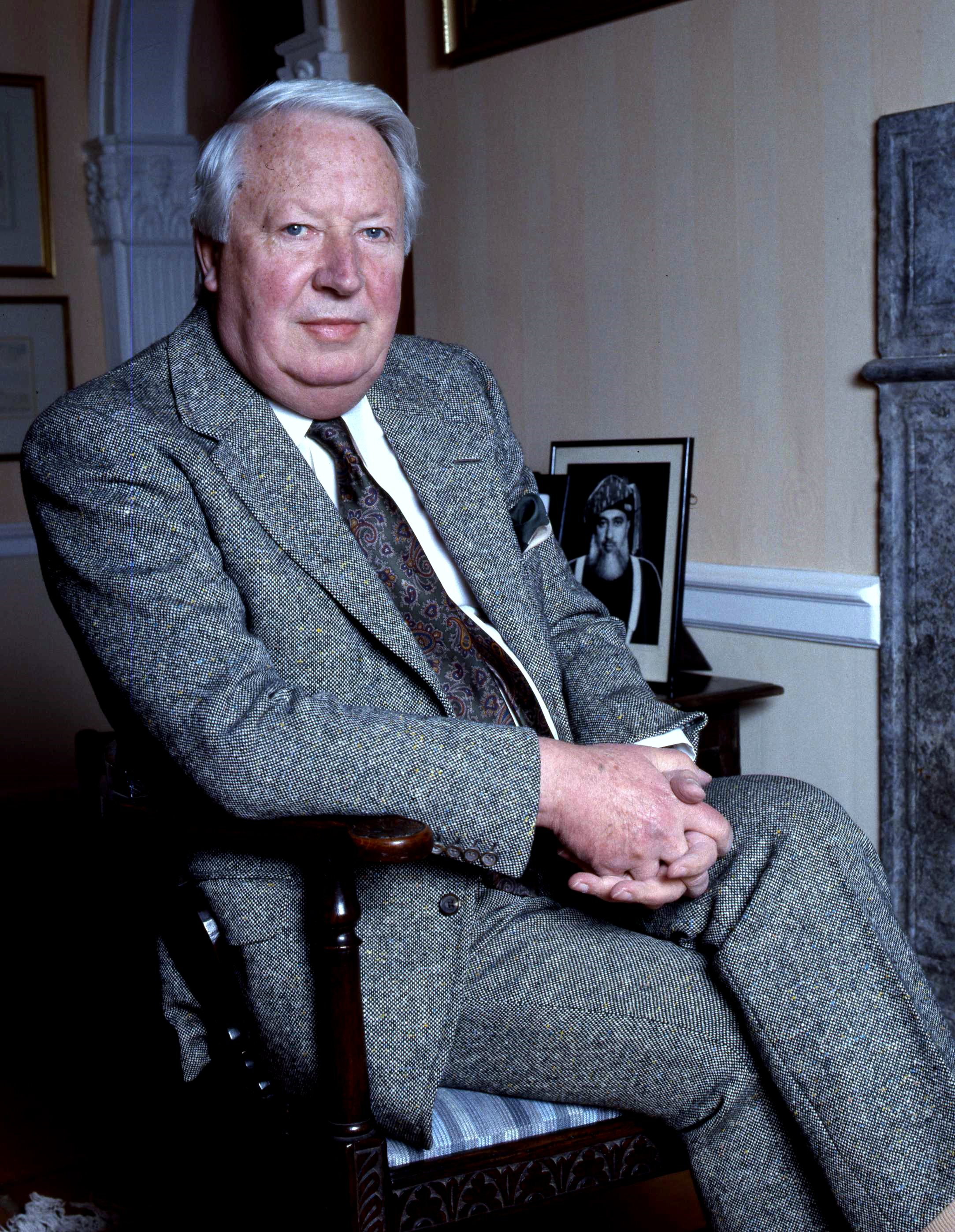 Edward Heath at home in Salisbury